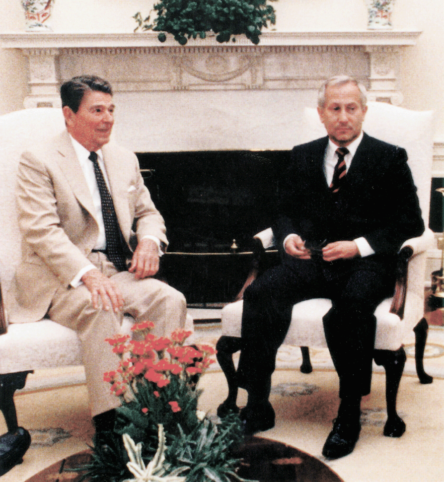 President Ronald Reagan and Soviet double agent Oleg Gordievsky